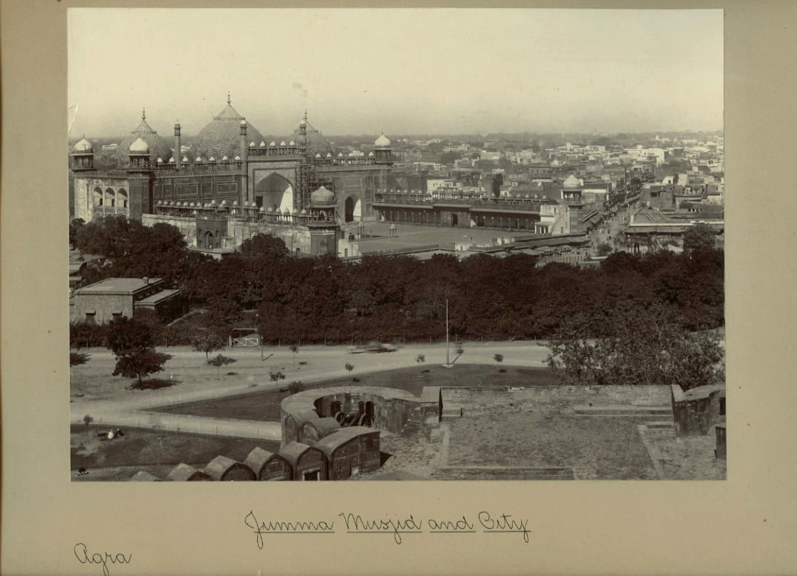 "Jumma Musjid and City," a photo, c.1890's